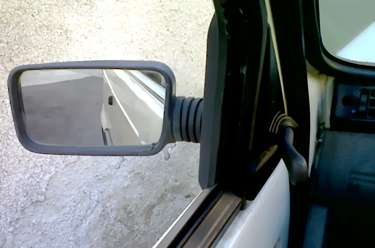 Side rear view mirror of the Panda 750, characterized by a manual control both external and internal.